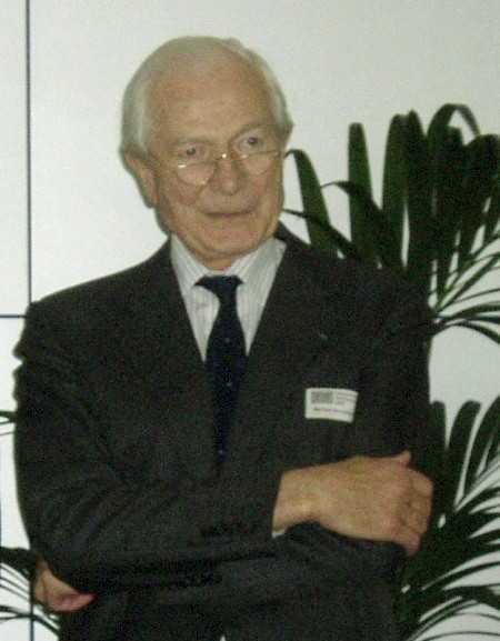 Michael Broadbent during GAD awards ceremony at Frankfurter Buchmesse 2005, Germany